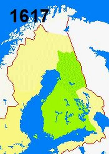 Border changes in Finland 1617